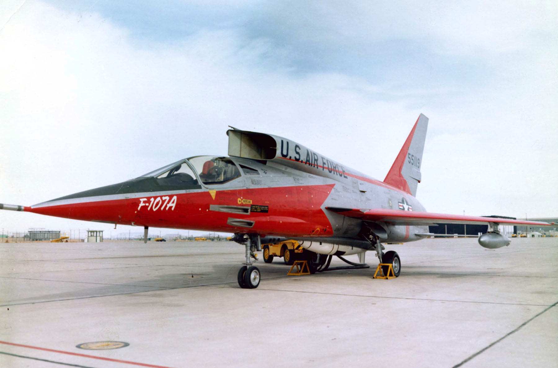 North American Aviation XF-107A "Ultra Sabre", developed from the F-100